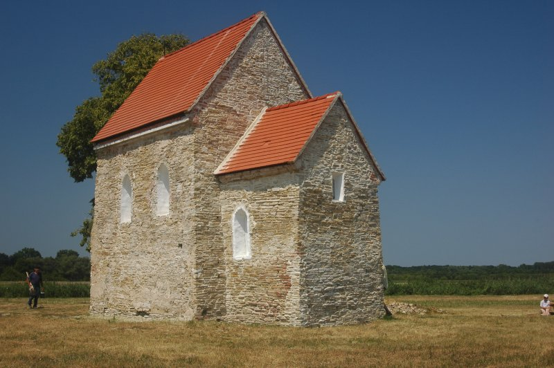 Kopčany, St. Margaret church, 9 st, probably the only remaining Great Moravian Building